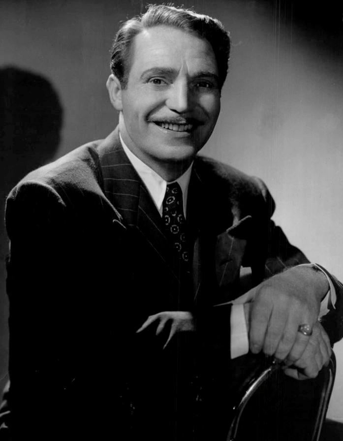 Photo of Hanley Stafford, who is best remembered as Lancelot Higgins, father of Baby Snooks on the Baby Snooks radio program.